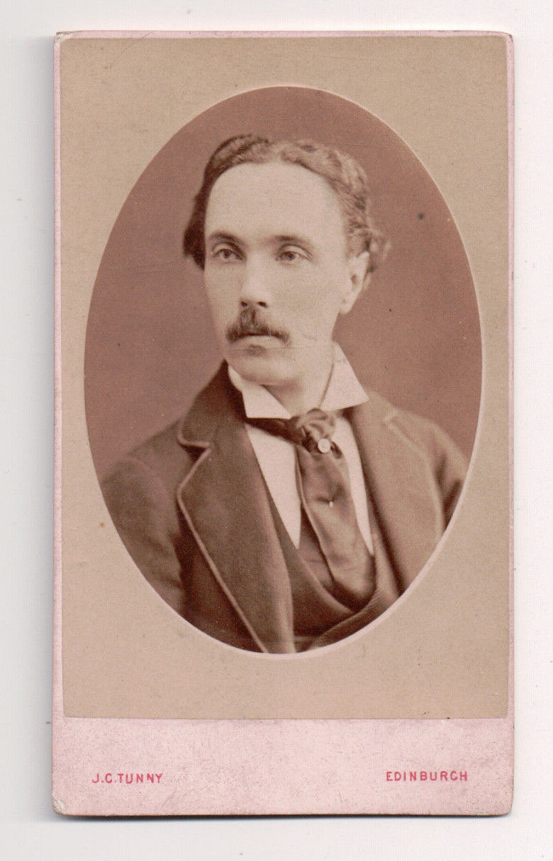 Said to be Robert Louis Stevenson, but it's not him in reality.